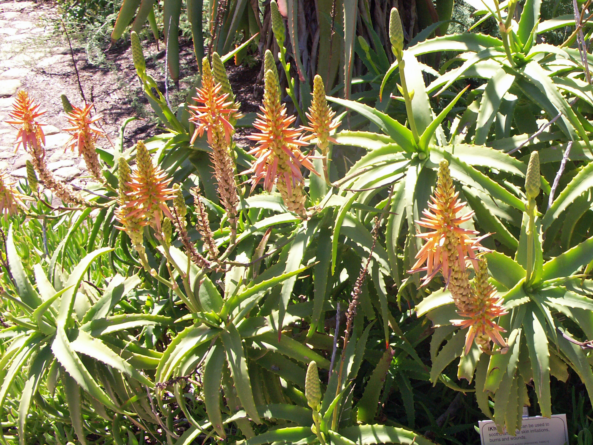 Aloe Arborescens - Kirstenbosch Botanical Gardens - South Africa